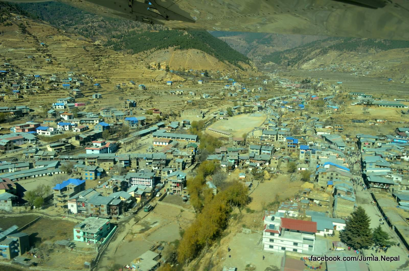 Photo of Jumla taken from Twin Otter Aeroplane